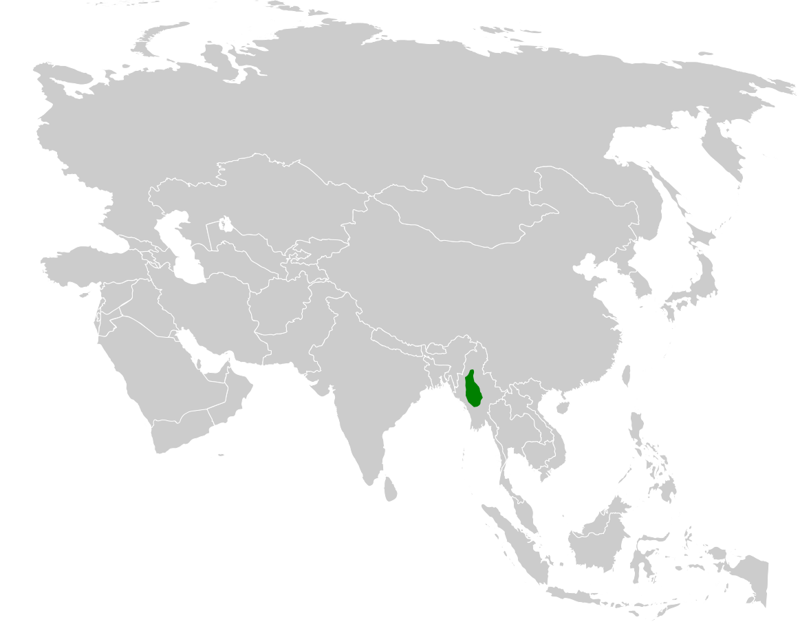 Mirafra microptera distribution map; using BlankMap-World6.svg, based on